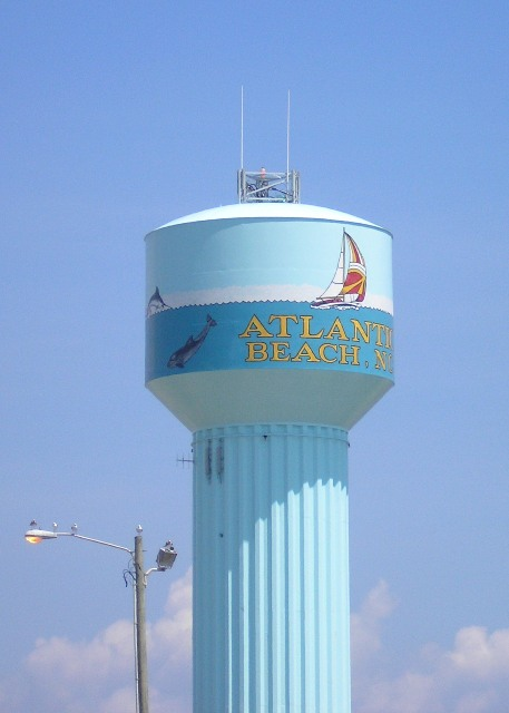 Atlantic Beach Water Tower in Carteret County, NC.